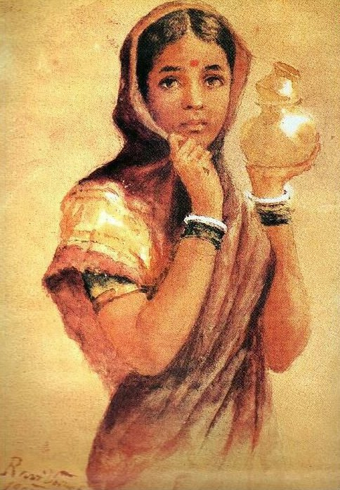 A painting of a north Indian village girl carrying milk.